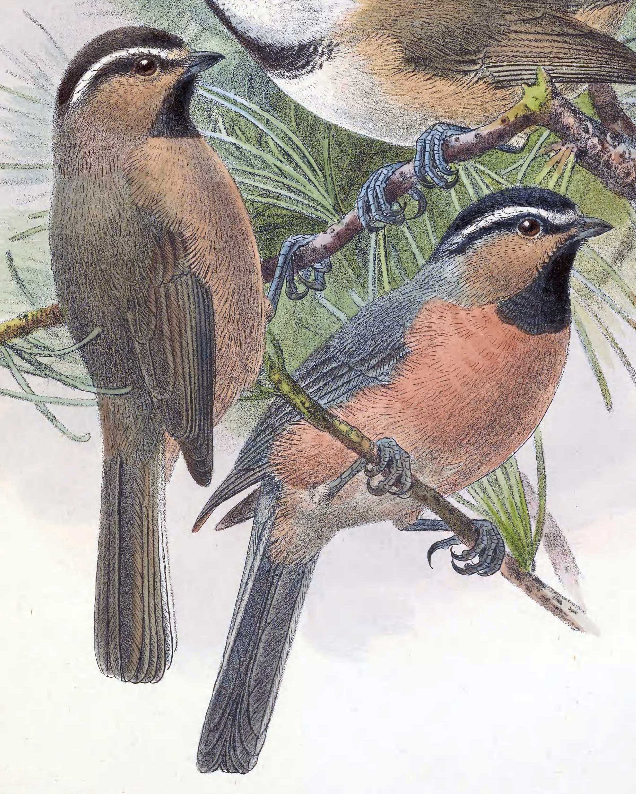 « Poecile superciliosa » = Poecile superciliosus (White-browed tit) - adult in winter plumage and a young